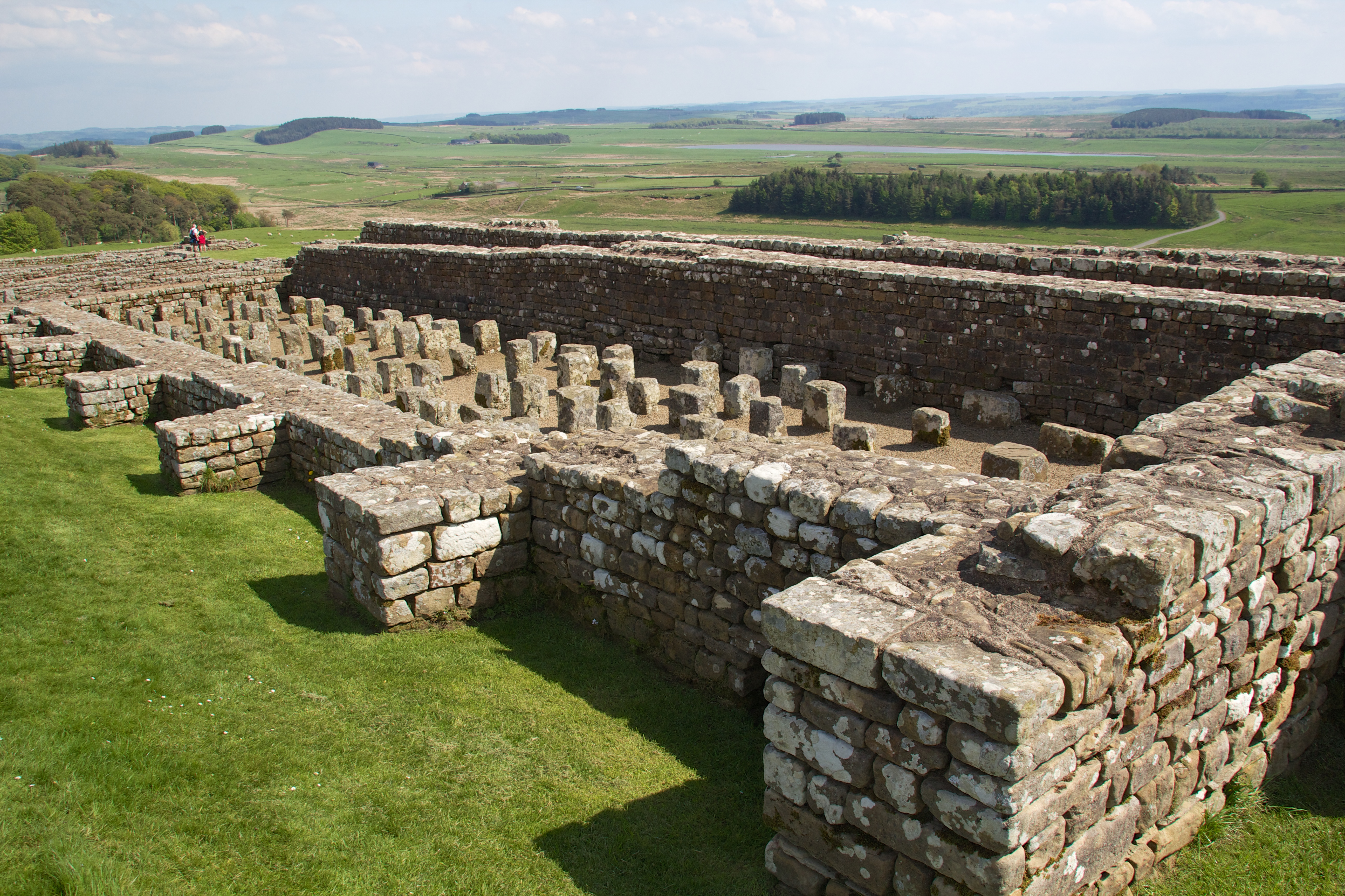 Granary at Housesteads Roman Fort on Hadrian's Wall.